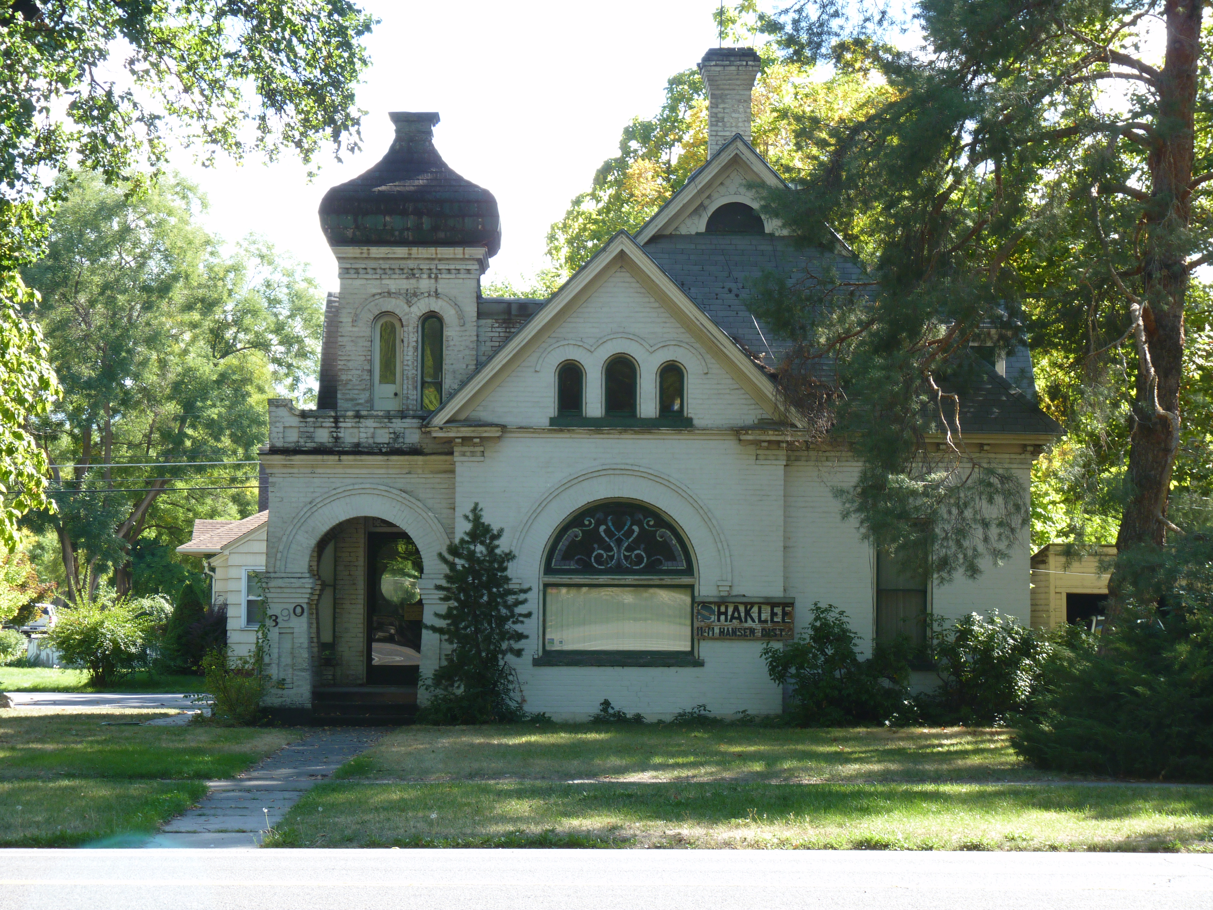 The Knight-Allen House is located in Provo, Utah at 390 East Center Street. It is listed on both the NRHP and the Provo City Historic Landmarks Registry.